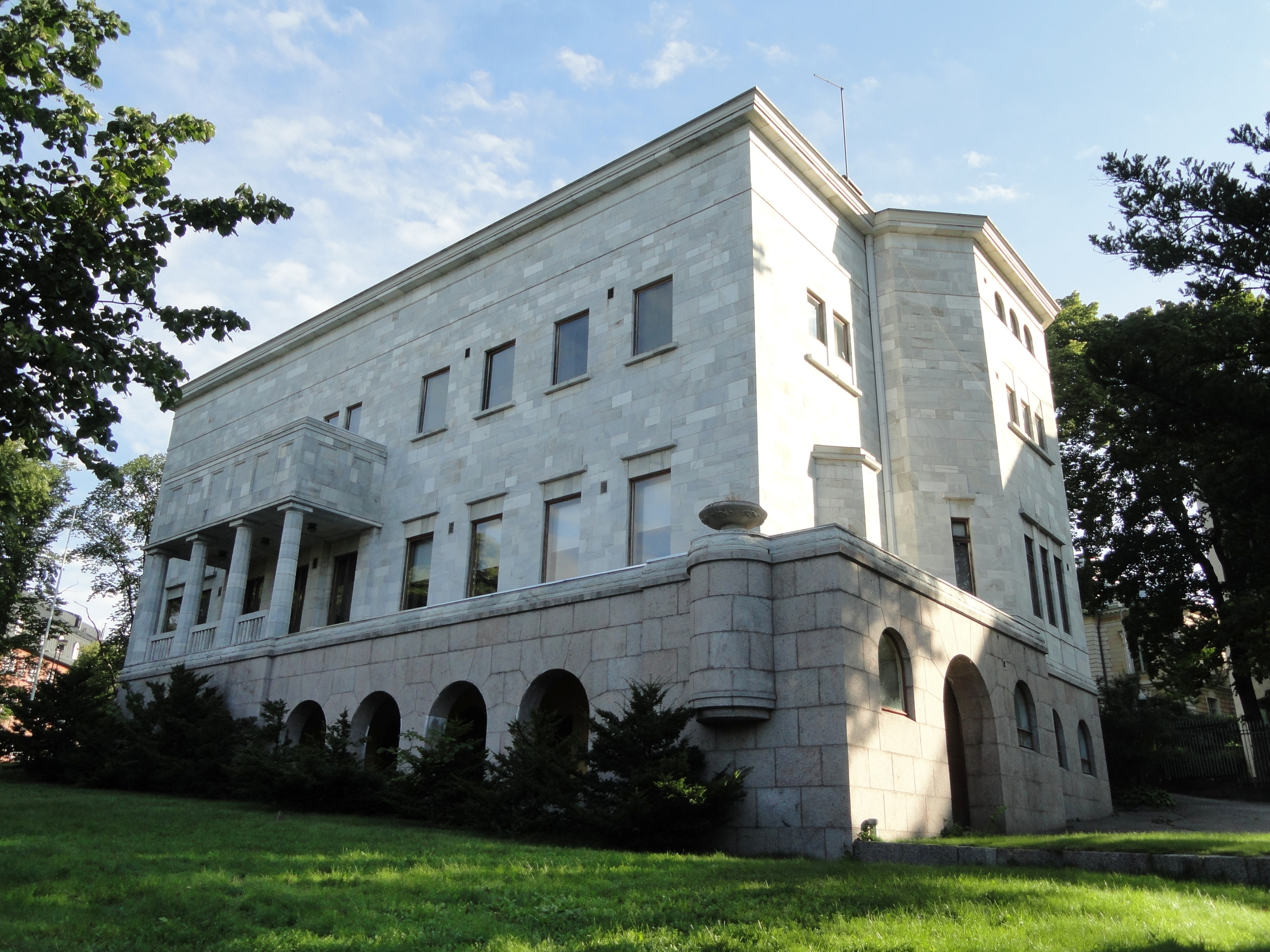 Marmoripalatsi (Marble Palace), Itäinen puistotie 1, Helsinki, Finland. Architect: Eliel Saarinen. Built 1916.